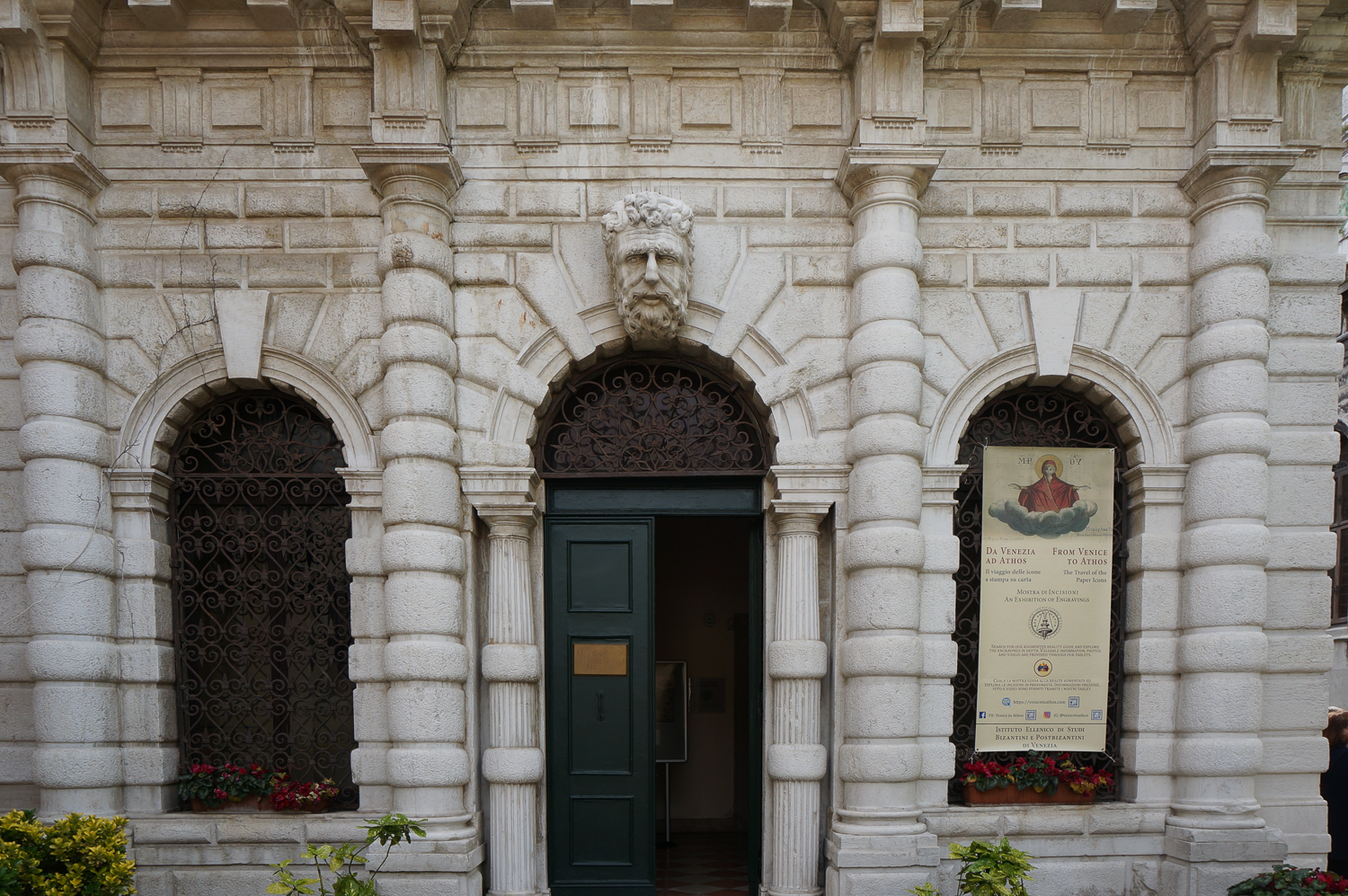 Hellenic Institute of Byzantine and Post-Byzantine Studies of Venice, Castello 3412, Venice (VE) Italy, European Union